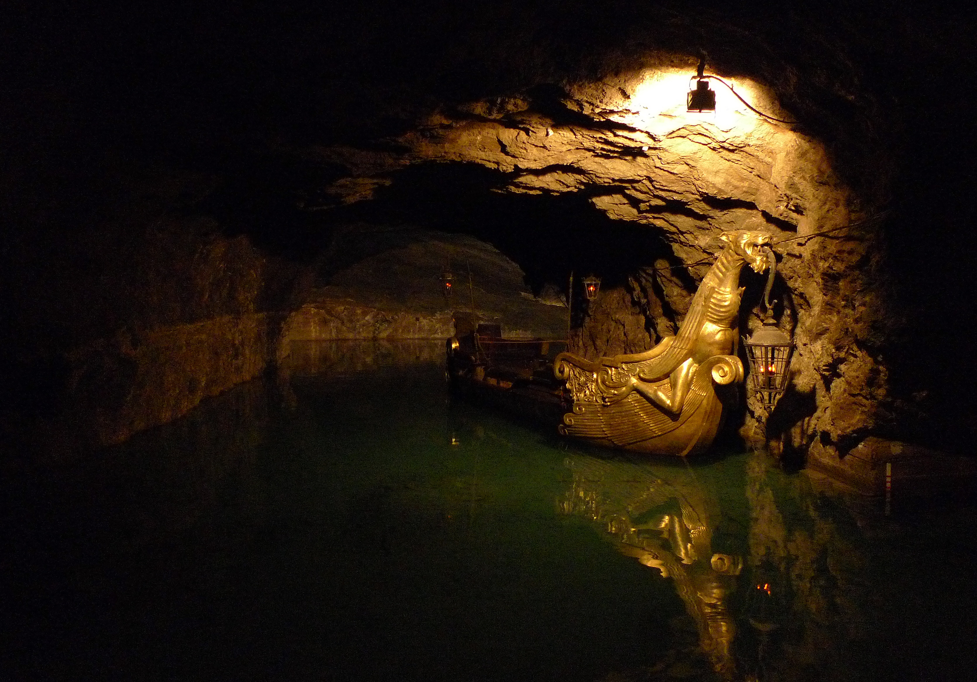 Former mine Seegrotte in Hinterbrühl, Lower Austria - boat from movie Three Musketeers.